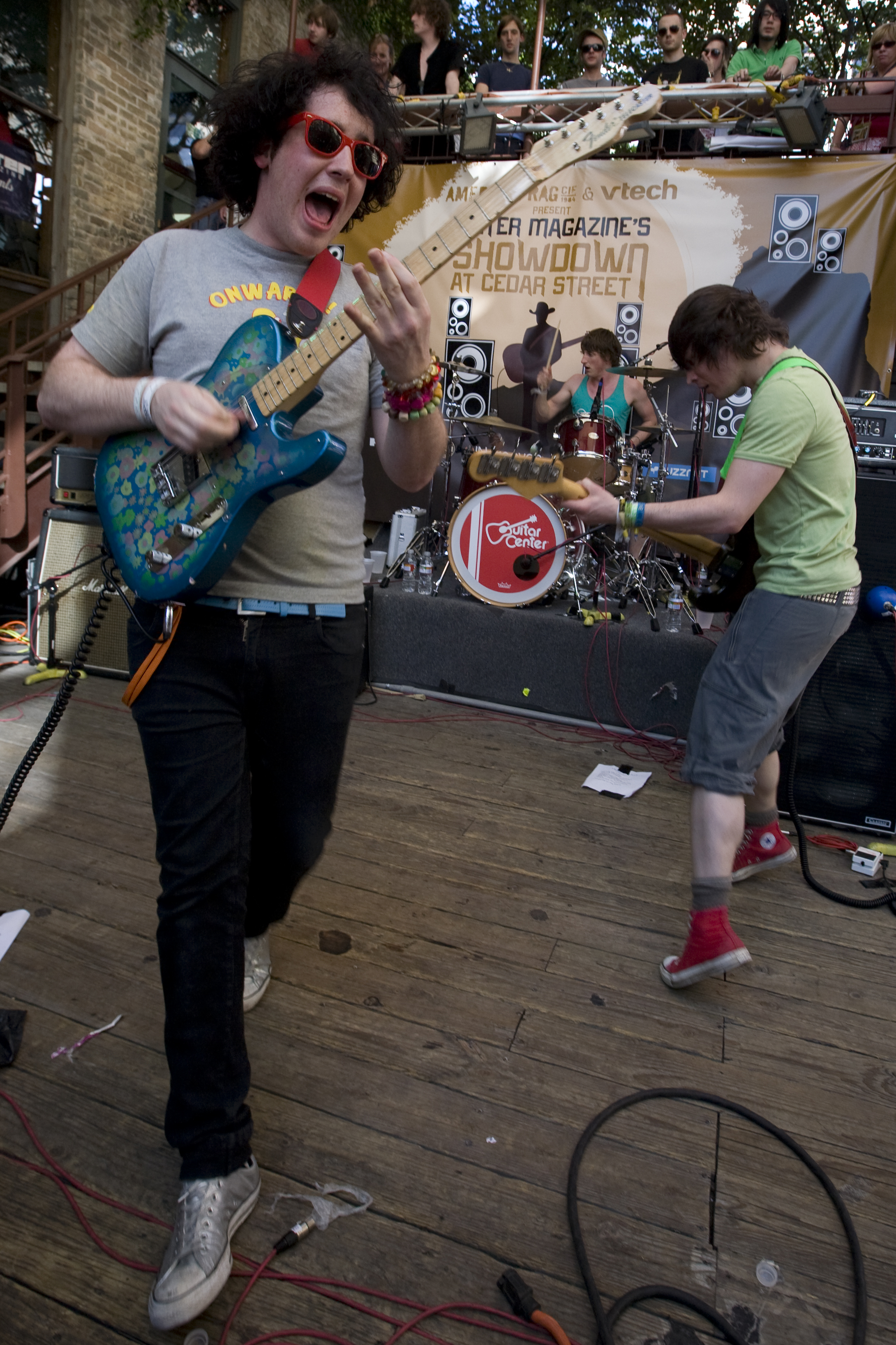 The Wombats performing at SxSW in Austin, Texas on March 14, 2008.